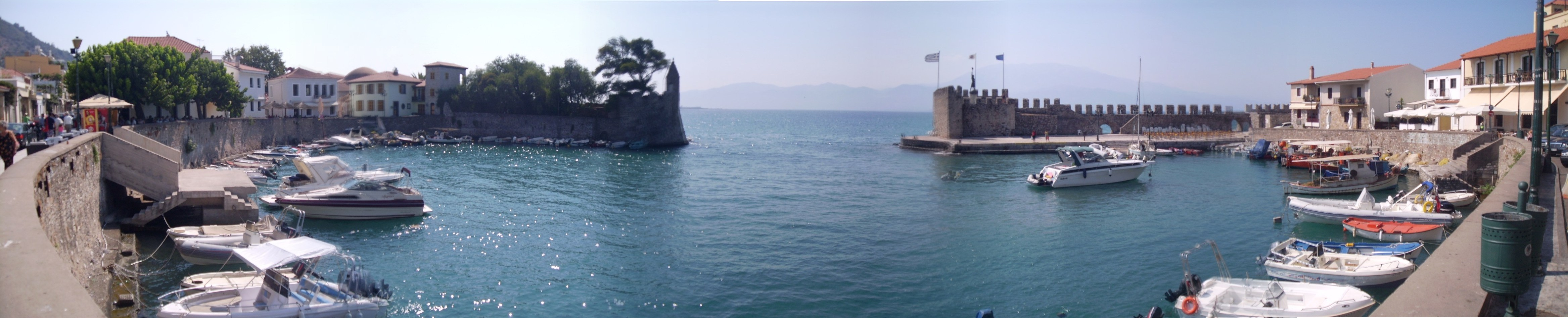 Panoramic of the port of Nafpaktos